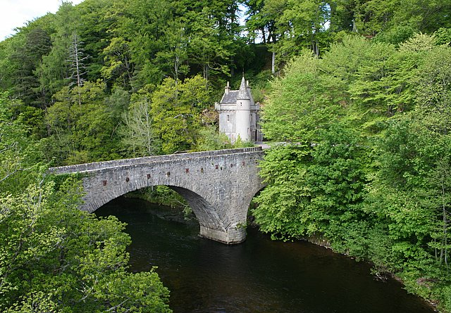 Bridge of Avon in Summer sunshine. The River Avon (Pronounced "Ahn") is an angler's delight.